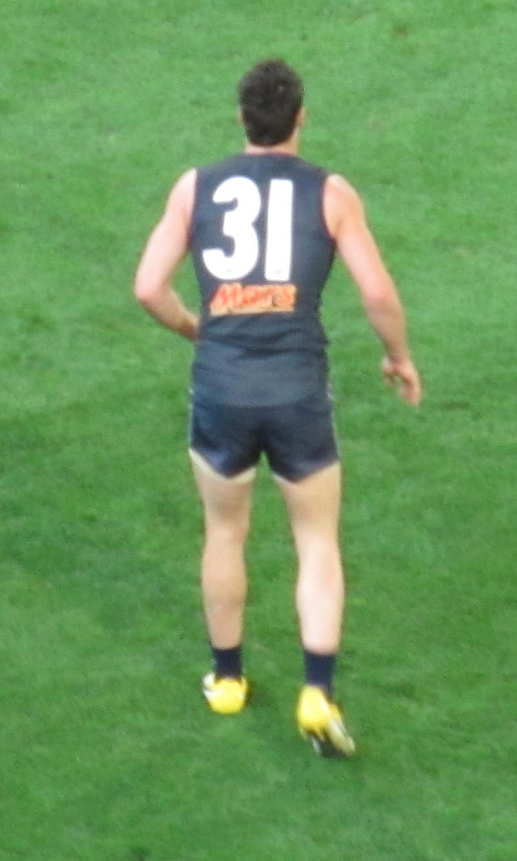 Marcus Davies in action for Carlton, Round 24, 2011.